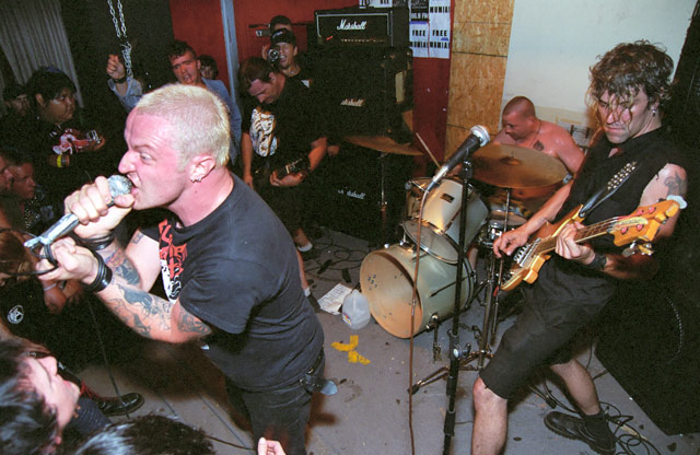 author: Daryl Rysdyk. used with permission.